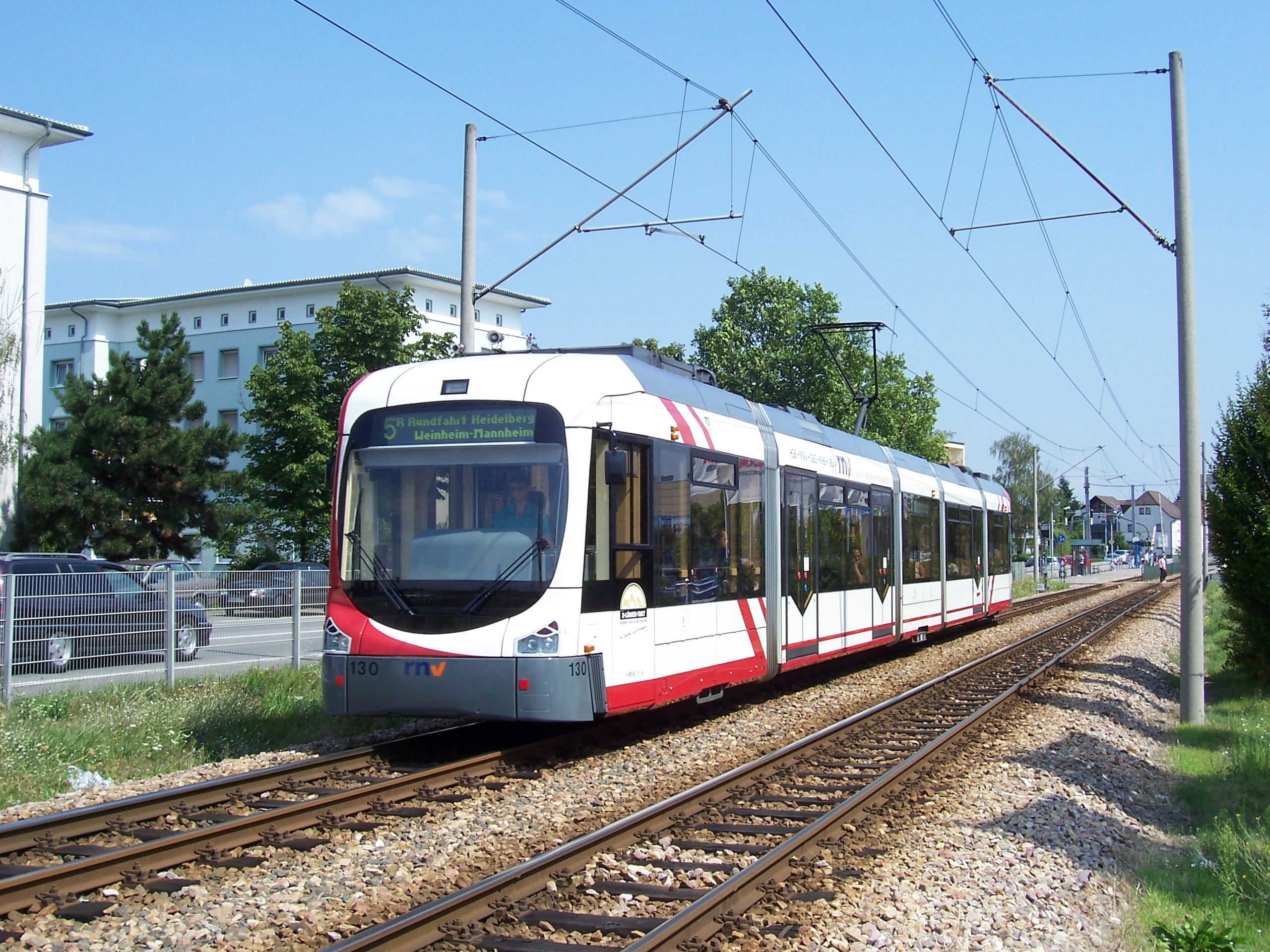 Variobahn owned by MVV OEG AG in Viernheim, Germany My own photo from 19-aug-2005